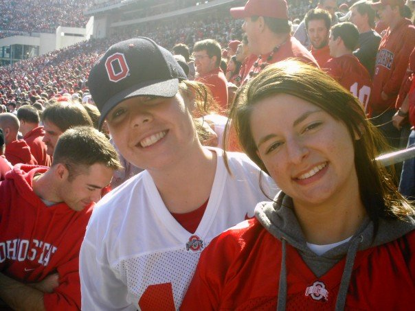 Picture of Erin Rankin taken at Ohio State vs. Indiana football game in 2006.